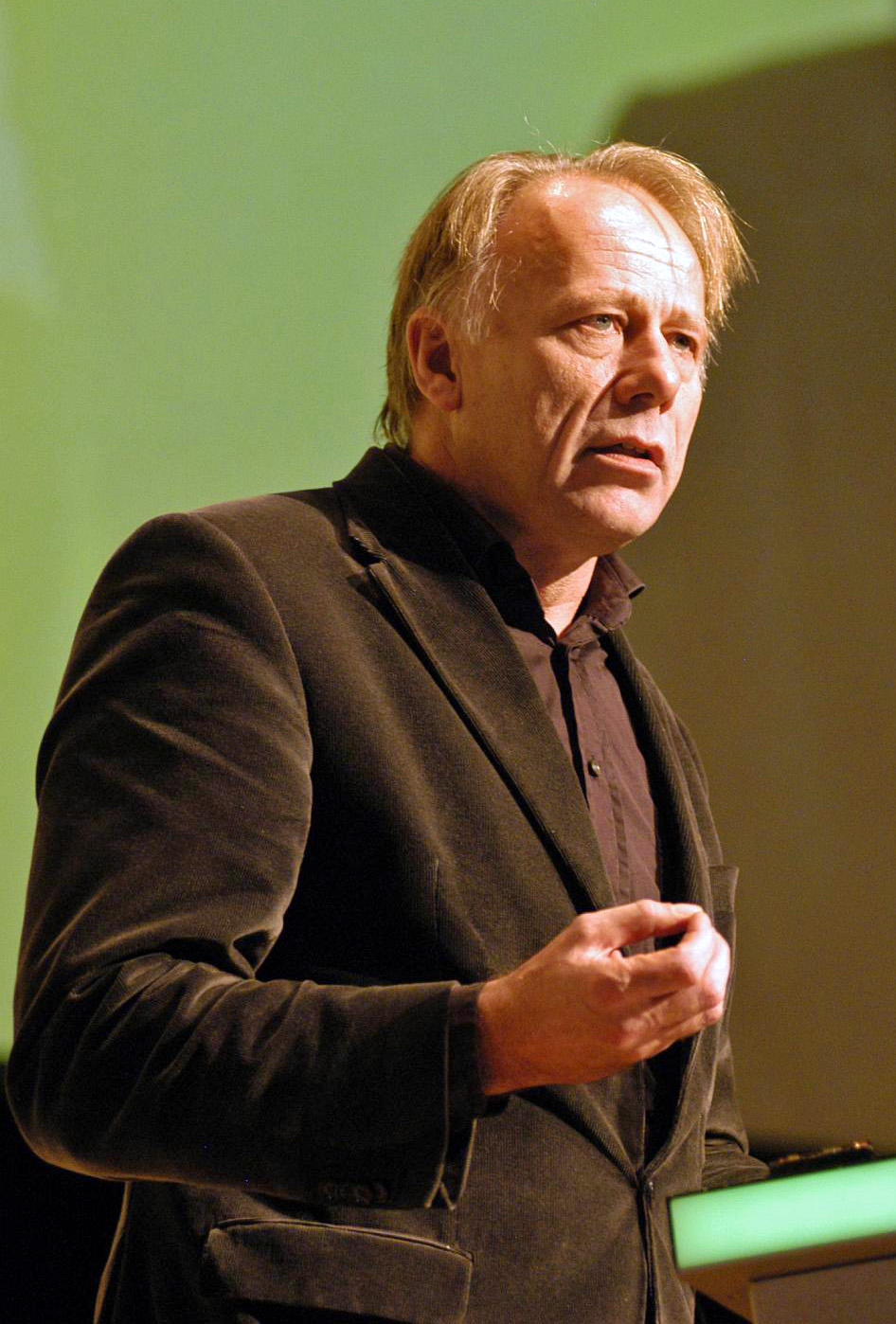 Jürgen Trittin, former German minister of the Environment